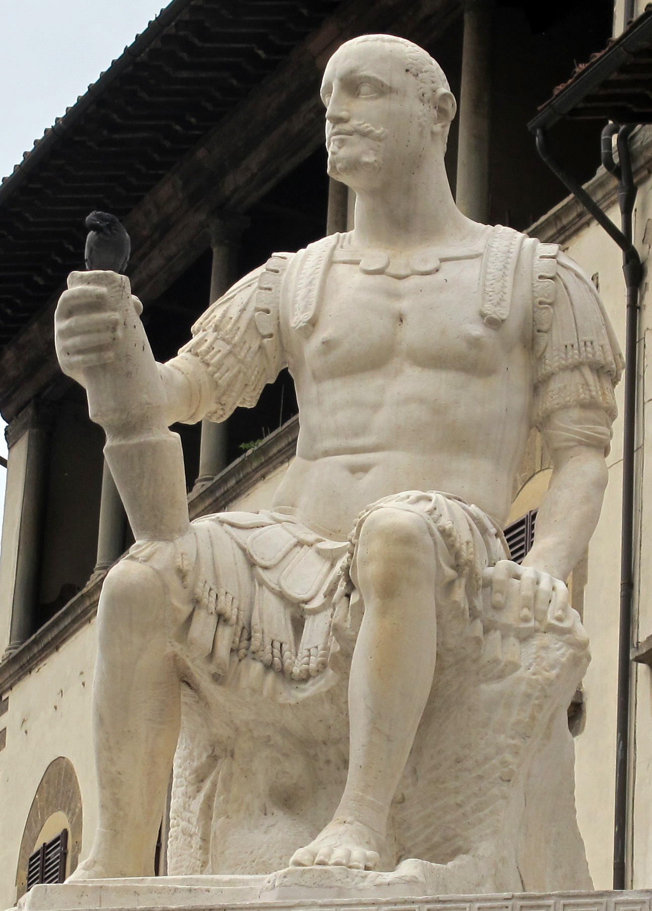 Monument to Giovanni delle Bande Nere (Florence)